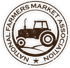 Official logo of the NFMA